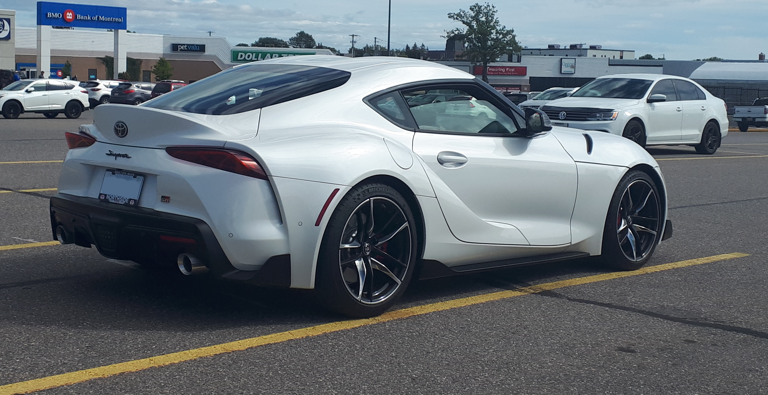 2020 Toyota GR Supra photographed in Sault Ste. Marie, Ontario, Canada